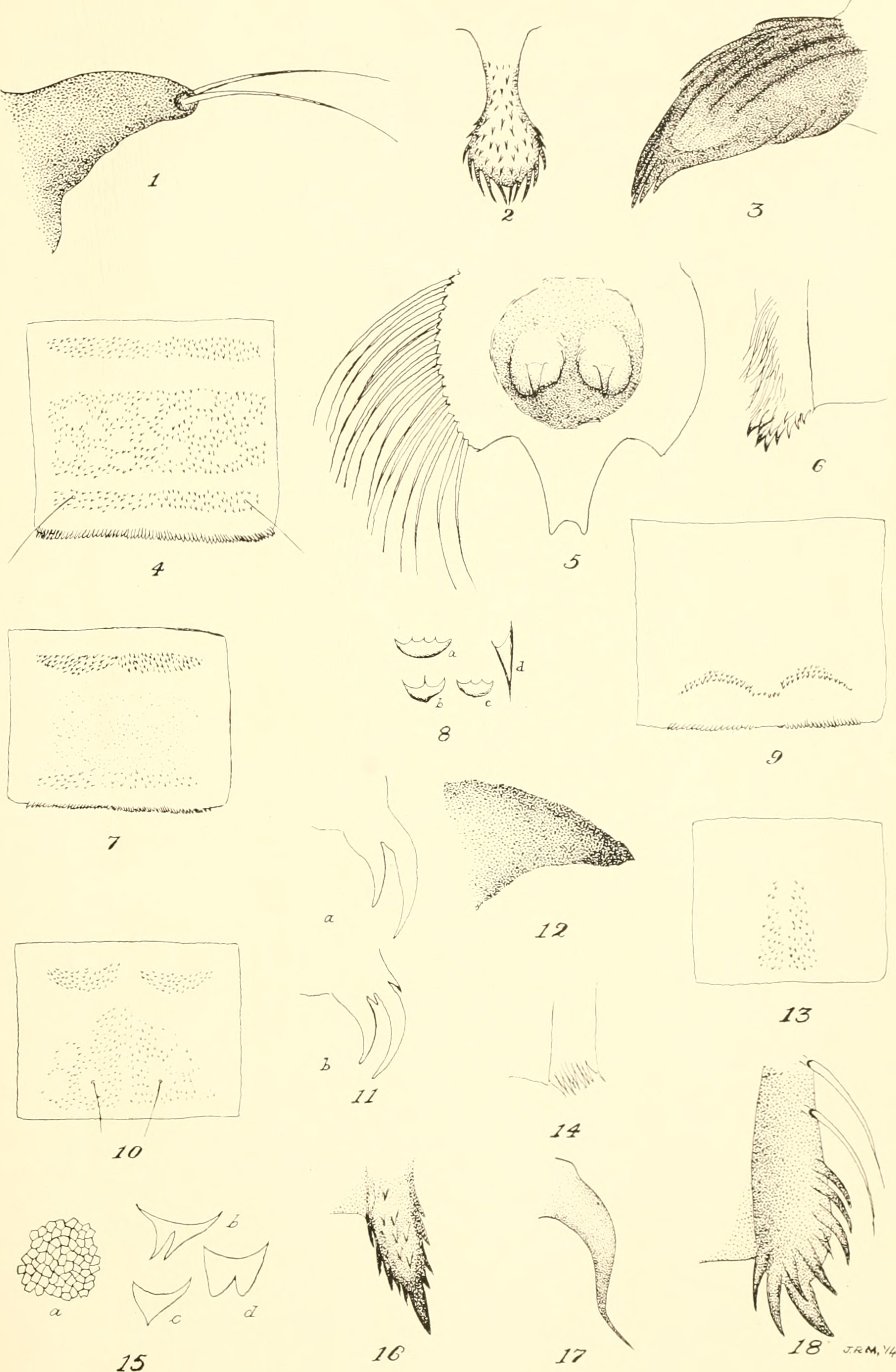 Title: The Chironomidae, or midges, of Illinois, with particular reference to the species occurring in the Illinois River Year: 1915 (1910s) Authors: Malloch, John Russell, 1875-1963 Subjects: Diptera Publisher: Urbana, Ill. Text Appearing Before Image: Plate XXXI Text Appearing After Image: '